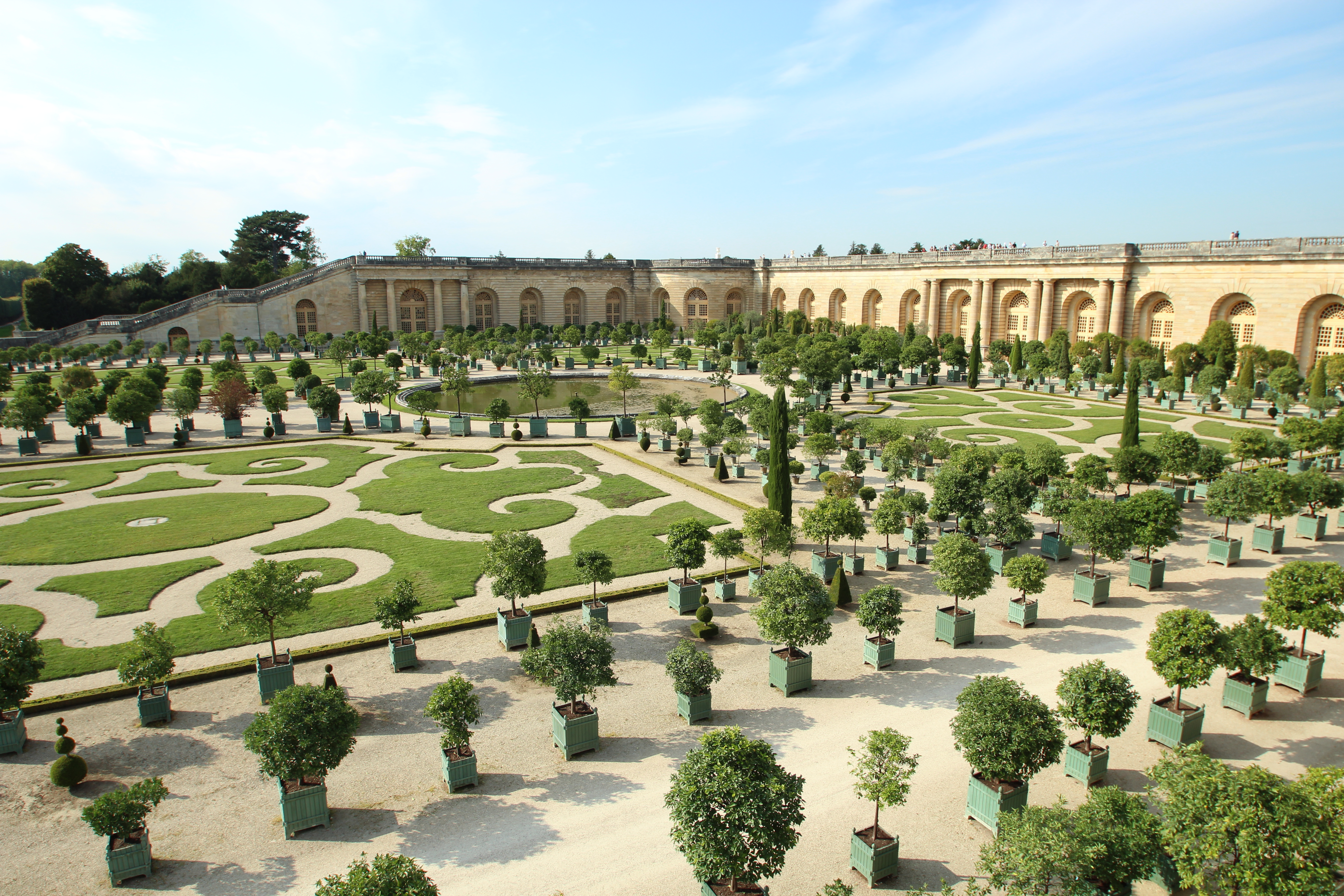 Orangery in the Palace of Versailles, France. Object location48° 48′ 08.32″ N, 2° 07′ 06.56″ E . This image was uploaded as part of L'Été des villes 2015.